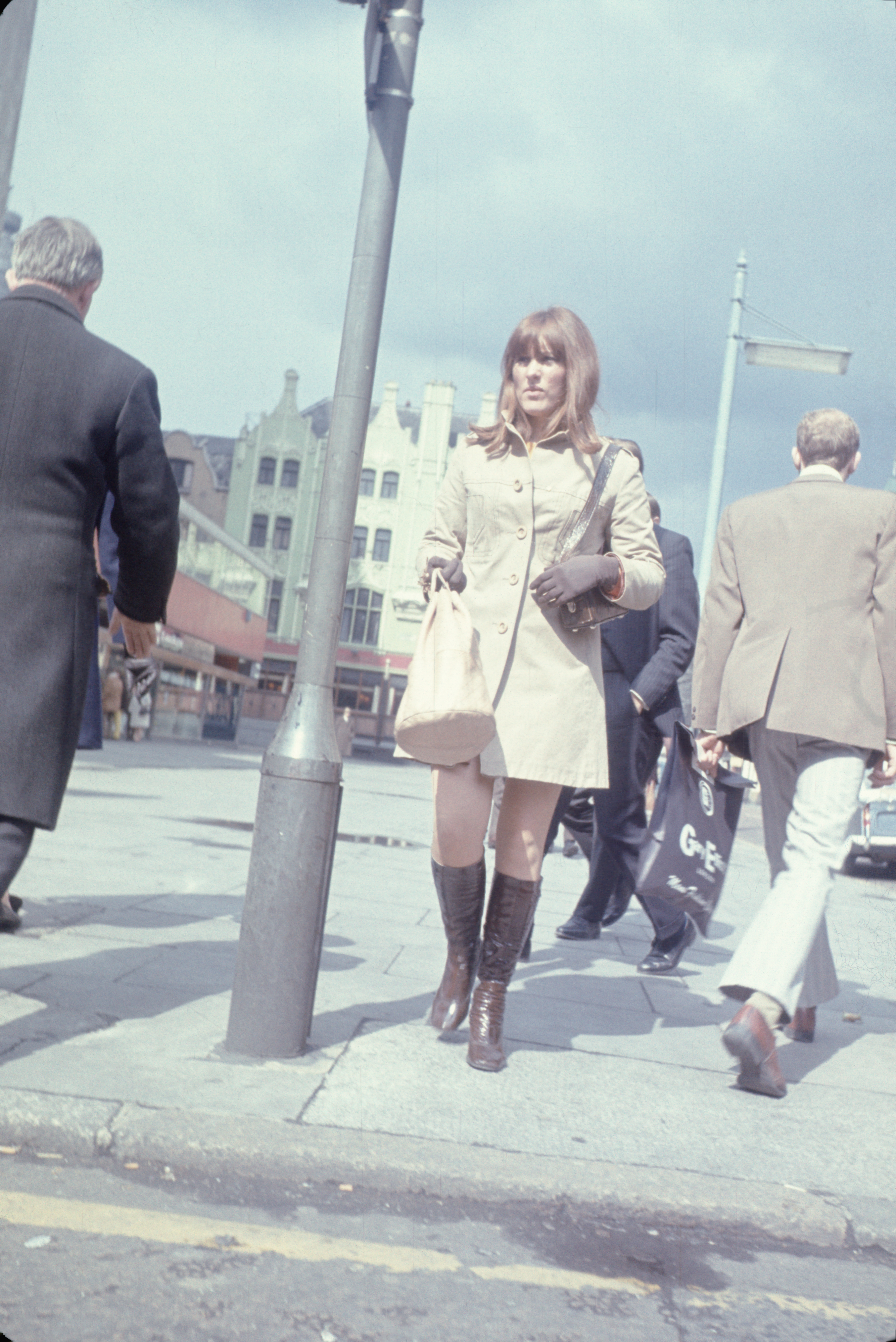 Photography by Victor Albert Grigas (1919-2017) Istanbul to London 3-70 March 1970 00399 (32759055117).jpg